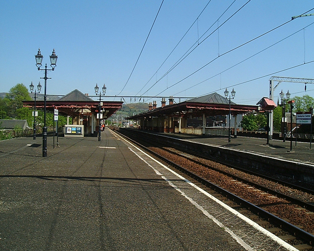 Dumbarton Central Station